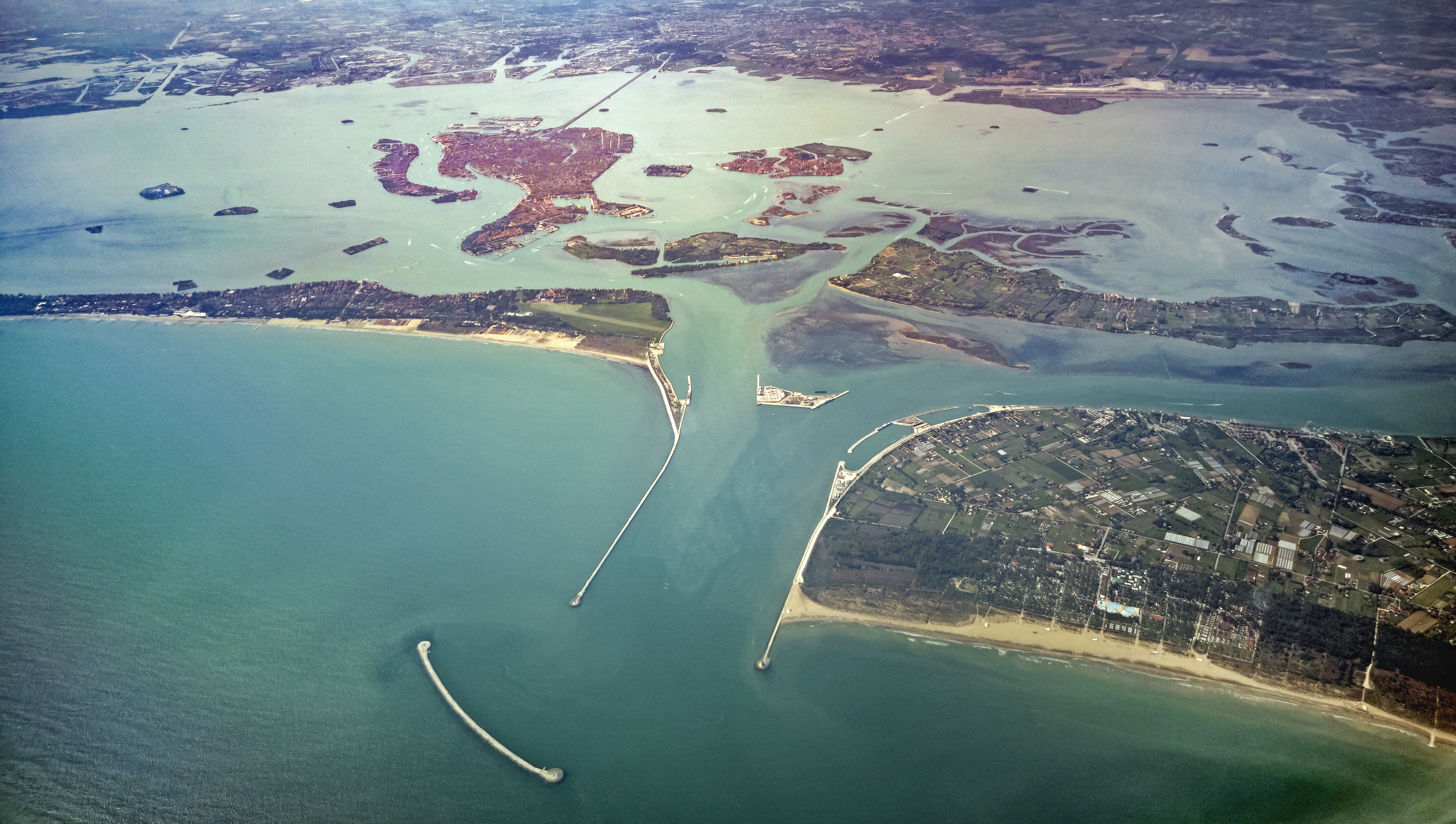 The Porto di Lido-San Nicolò and the Lagoon of Venice.